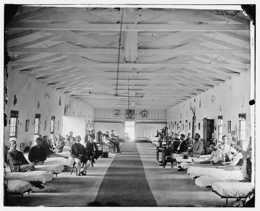 Washington, D.C. Patients in Ward K of Armory Square Hospital. August 1865 - LC-B817- 7822